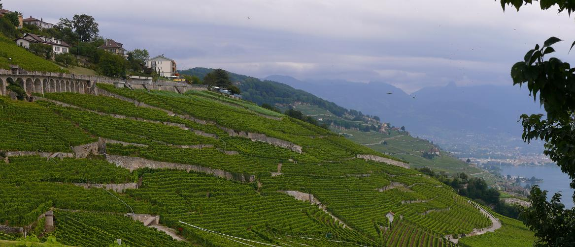 Vineyards of Dézaley from Épesses